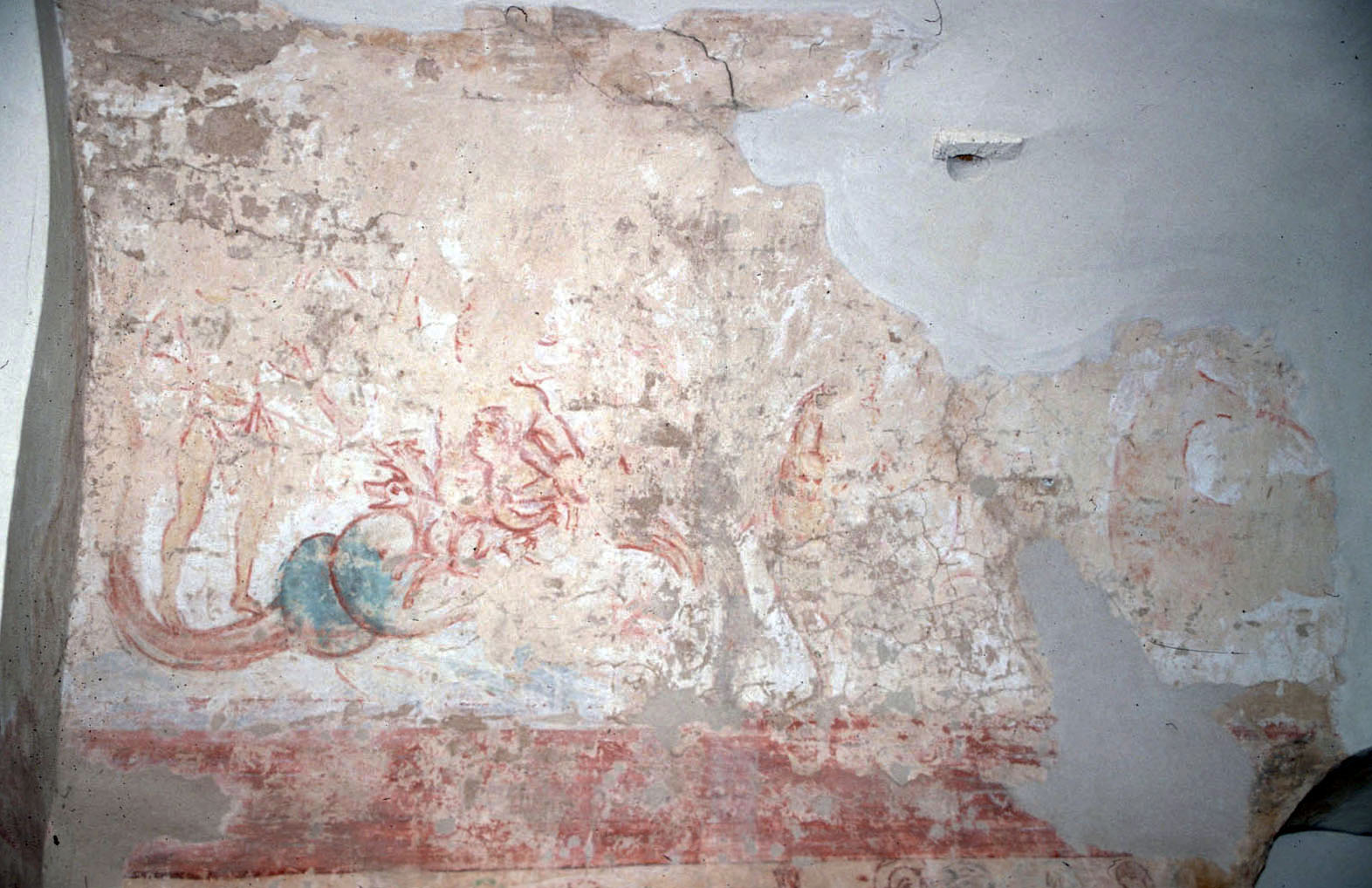 Odysseus facing Scylla and Charybdis. Carolingian fresco in the church narthex (westwork) of the Imperial Abbey of Corvey, Germany, ca. 825.